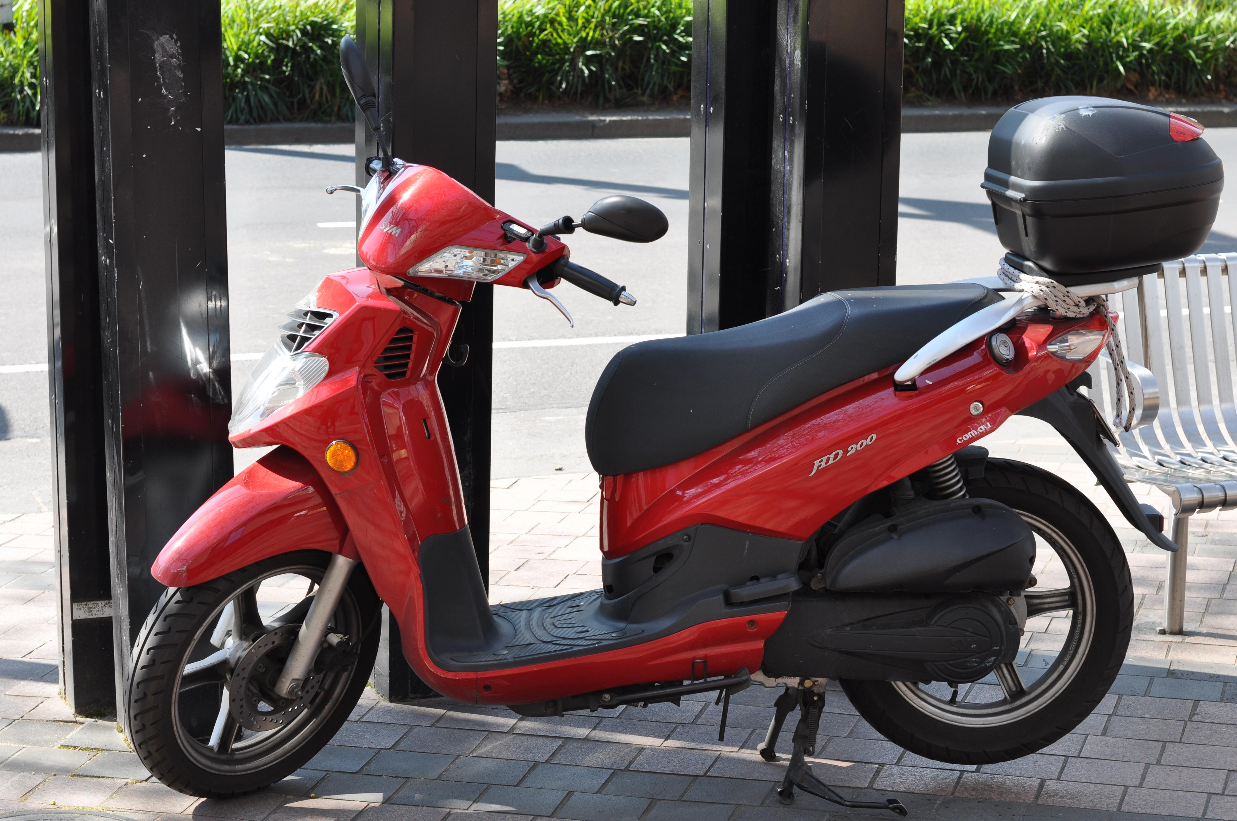 SYM HD200 scooter, Melbourne, Australia. Source by .au